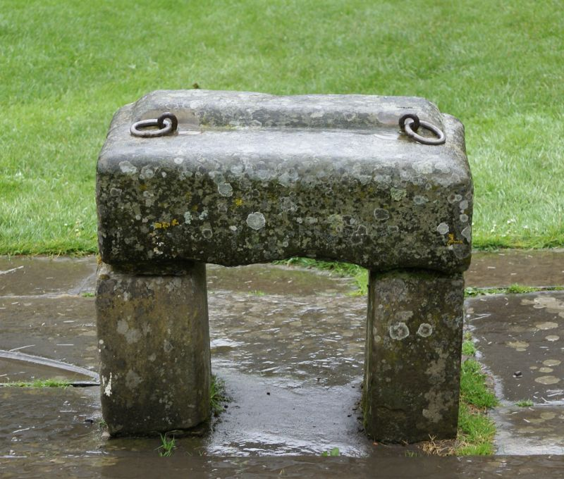 Replica of the Stone of Scone at the original location at Scone Palace, Scotland